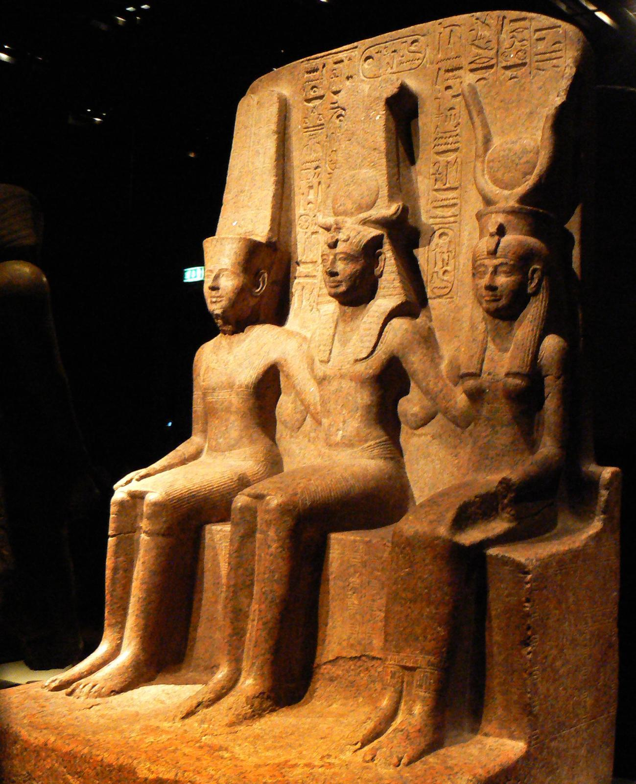 A triad statue of Ramesses II and the Egyptian deities Amun and Mut represented with the attributes of the goddess Hathor - Egyptian Museum of Turin.